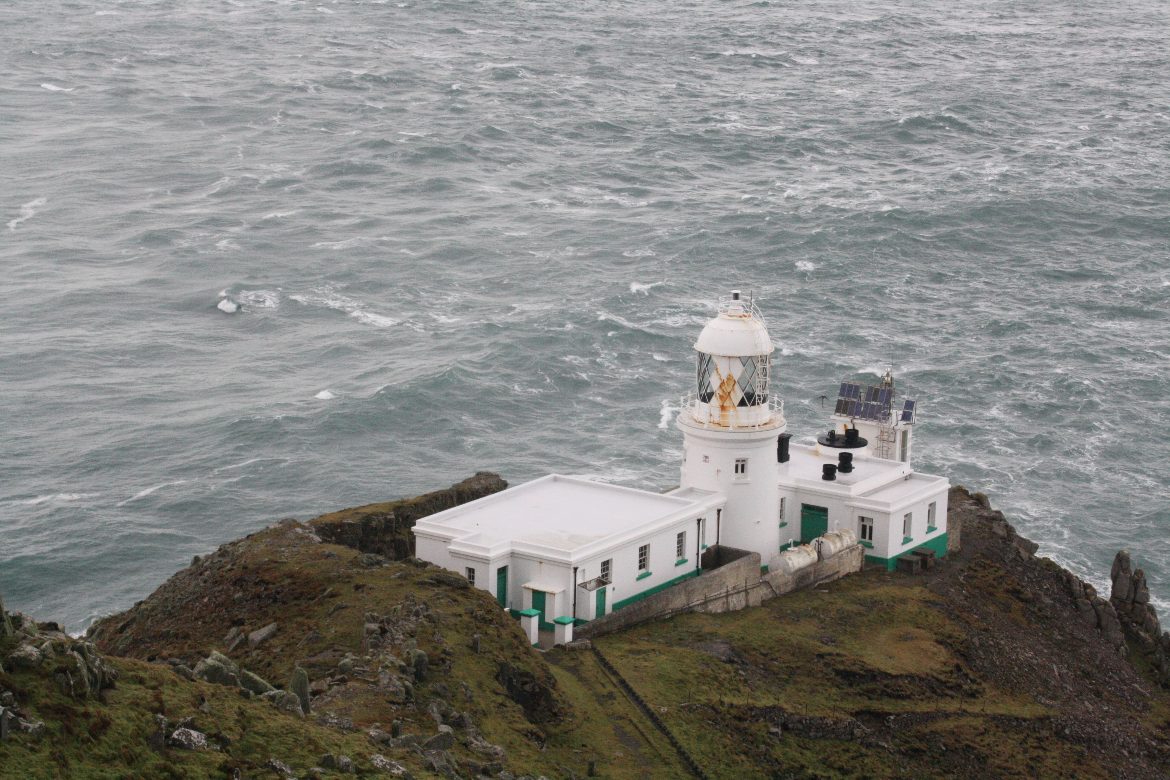 Lundy Island North lighthouse (UK). Built in 1897